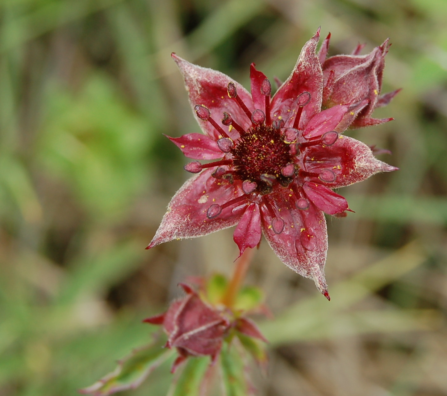 Swamp Cinquefoil - Potentilla palustris - Comarum palustre